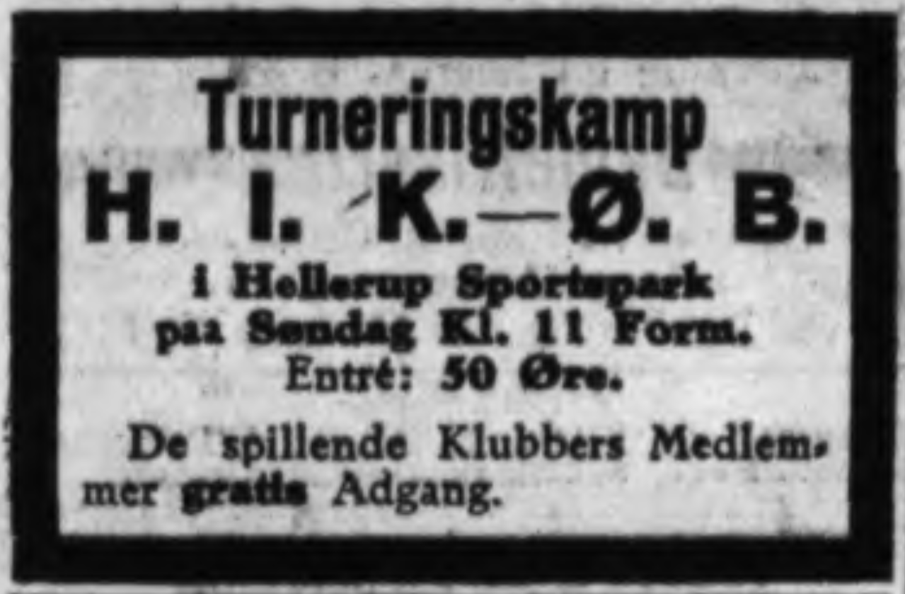 Advertisement for a 1927–28 KBUs A-Række football match on 31 May 1928 - The text reads: Turneringskamp H. I. K.—Ø. B. i Hellerup Sportspark paa Søndag Kl. 11 Form. Entré: 50 Øre. De spillende Klubbers Medlemmer gratis Adgang.